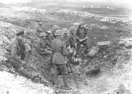 A group of unidentified Australians receiving instruction in the working of a Stokes trench mortar in cooperation with other arms at the Australian Corps Training School. The colour patches of two soldiers, one sitting in the foreground (left) and the other sitting near the centre, indicate they are probably members of the 26th Battalion and the colour patch of another soldier, (background, left), indicates he is a member of AIF Administrative Headquarters. Place made: France: Picardie, Somme Aveluy NOTE : This version of the photograph has brightness and contrast artificially increased to highlight details.